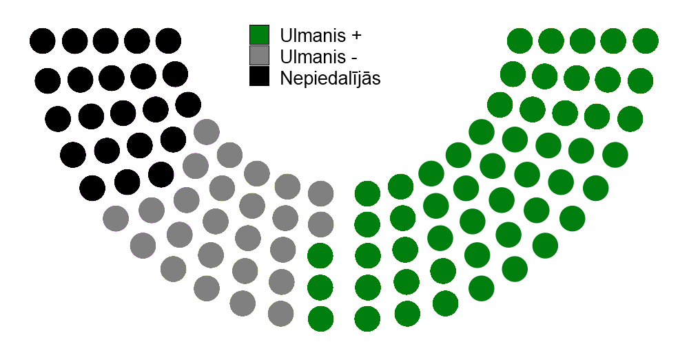 Graph showing the Saeima voting in Latvian presidential election, 1993.